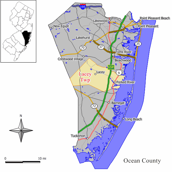 Locator map of Lacey Township in Ocean County, New Jersey